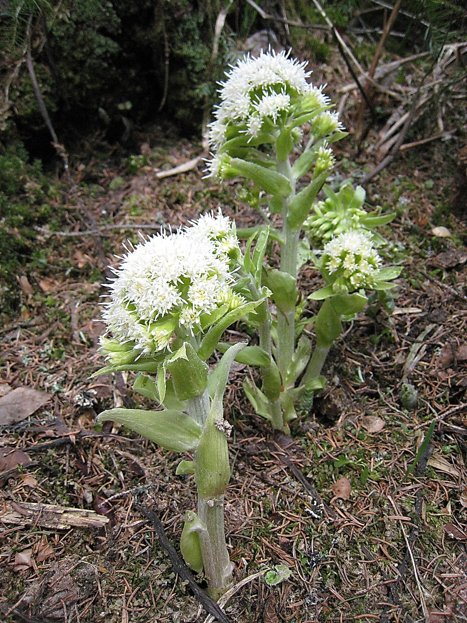 Petasites albus Petasites spurius, Borovets Tsarska Bistritsa, Bulgaria